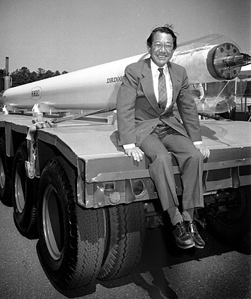 Satoshi Ozaki, Director of the Relativistic Heavy Ion Collider Project, Brookhaven National Laboratory, posed for photos with a magnet for the Relativistic Heavy Ion Collider on 1991.